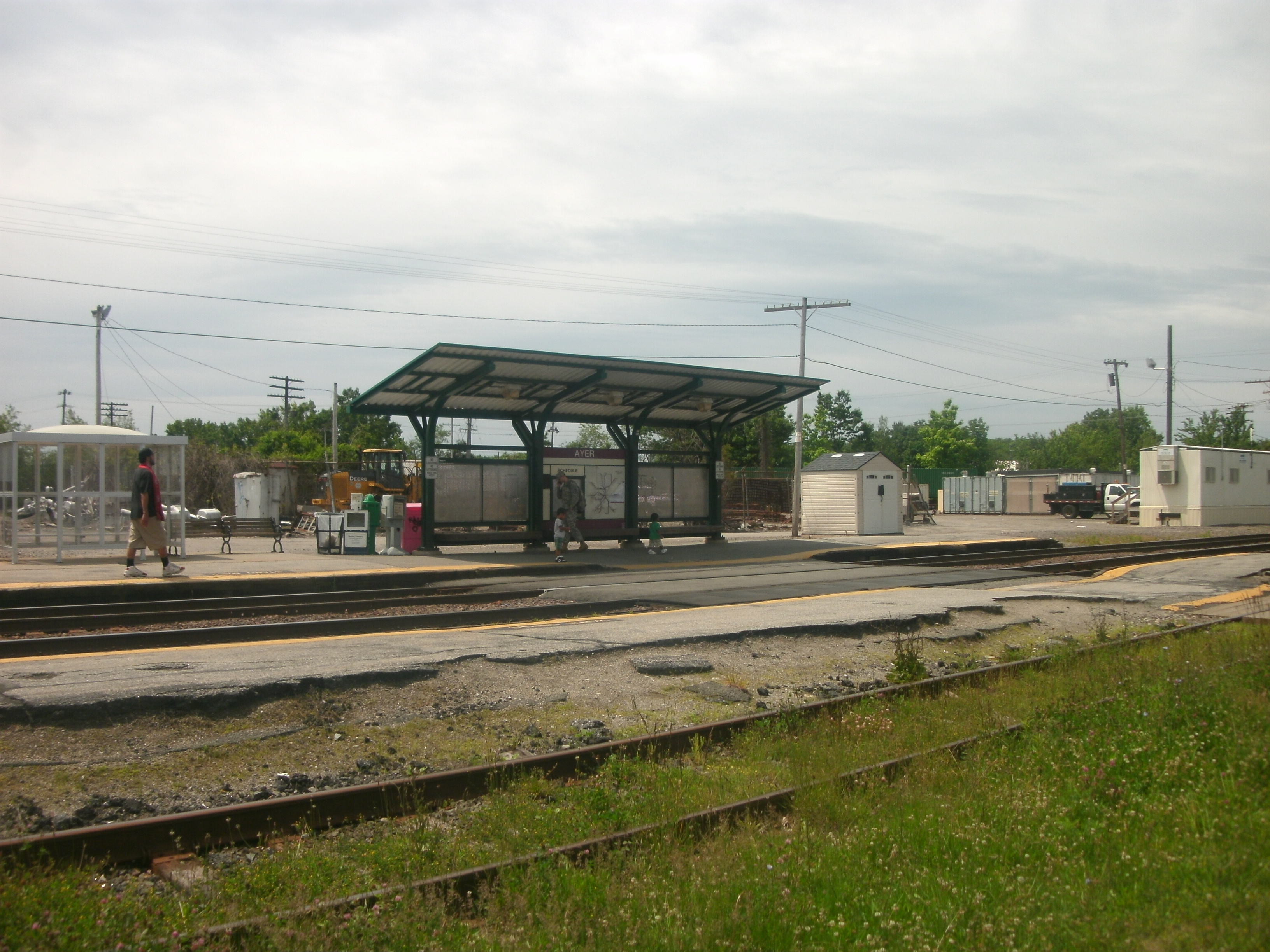 Ayer station in June 2012